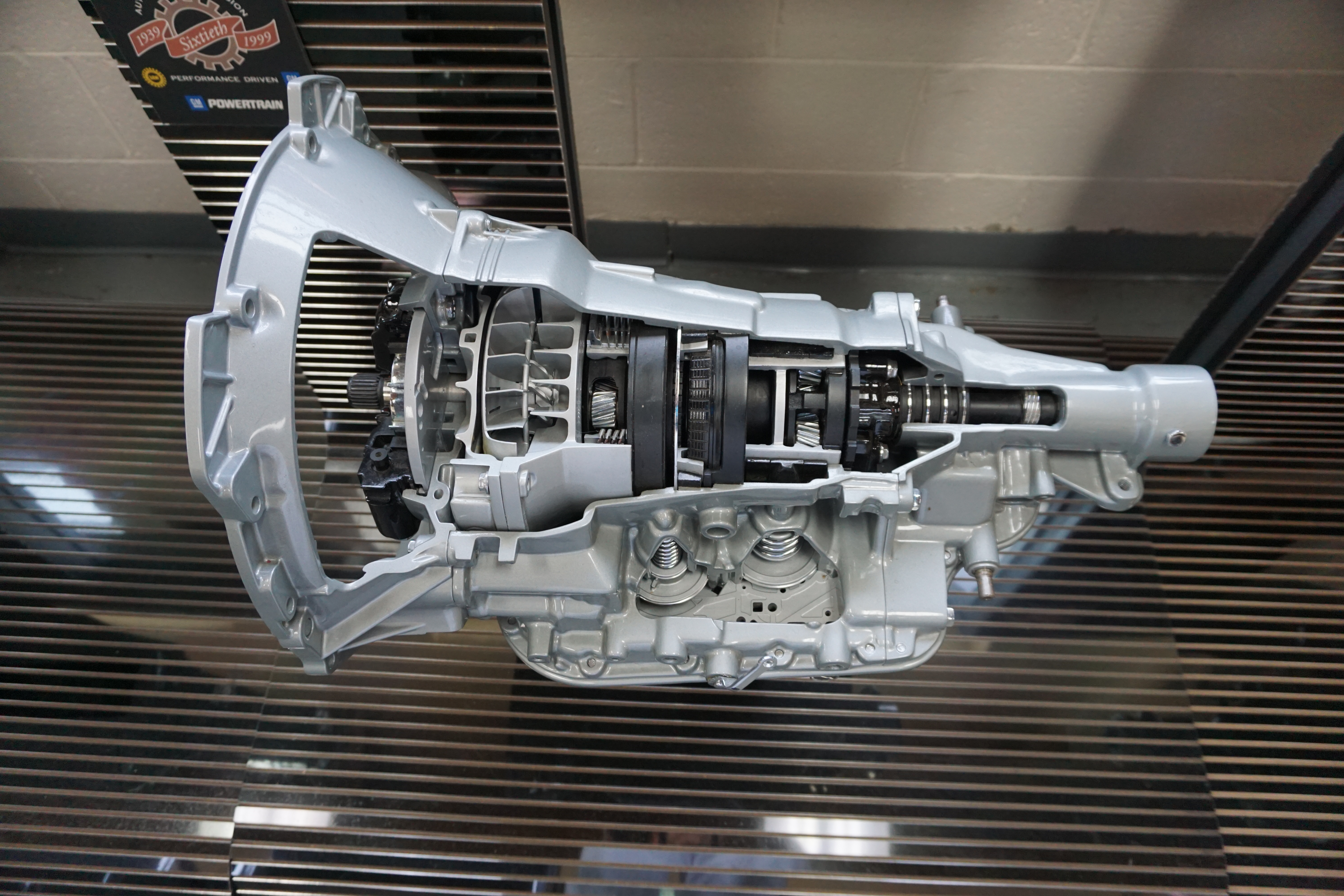 A 1961-64 Hydra-Matic 240 transmission at the Ypsilanti Automotive Heritage Museum in Ypsilanti, Michigan (United States).